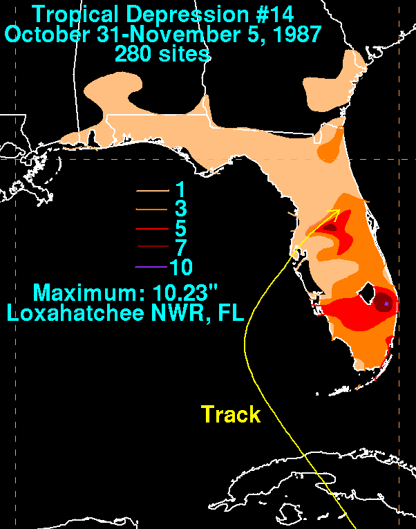 Storm total rainfall map of Tropical Depression Fourteen during October and November 1987.